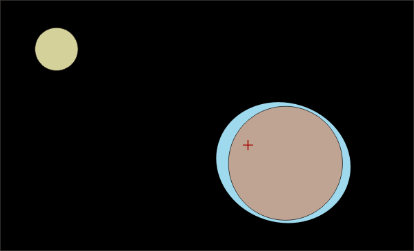 A very schematic illustration of the tidal bulges on the Earth caused by the Moon. The cross points to the common center of mass of the Earth–Moon system, it is placed correctly on the Earth's shape. Not to scale in any other relations.